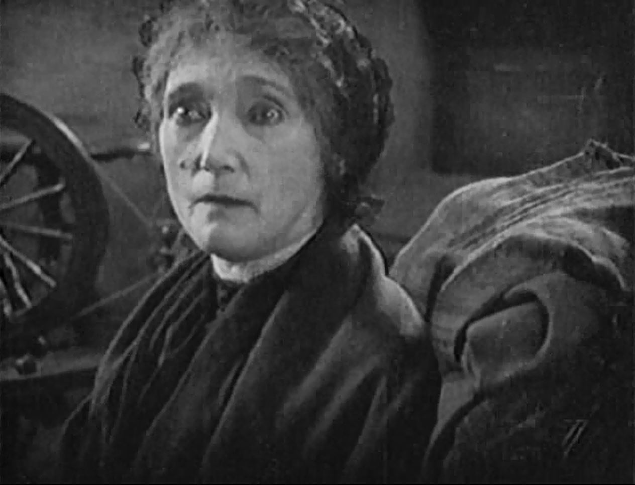 Low resolution screenshot of Carrie Daumery (1863 - 1938) as Madame Grandet in the American public domain film The Conquering Power (1921).